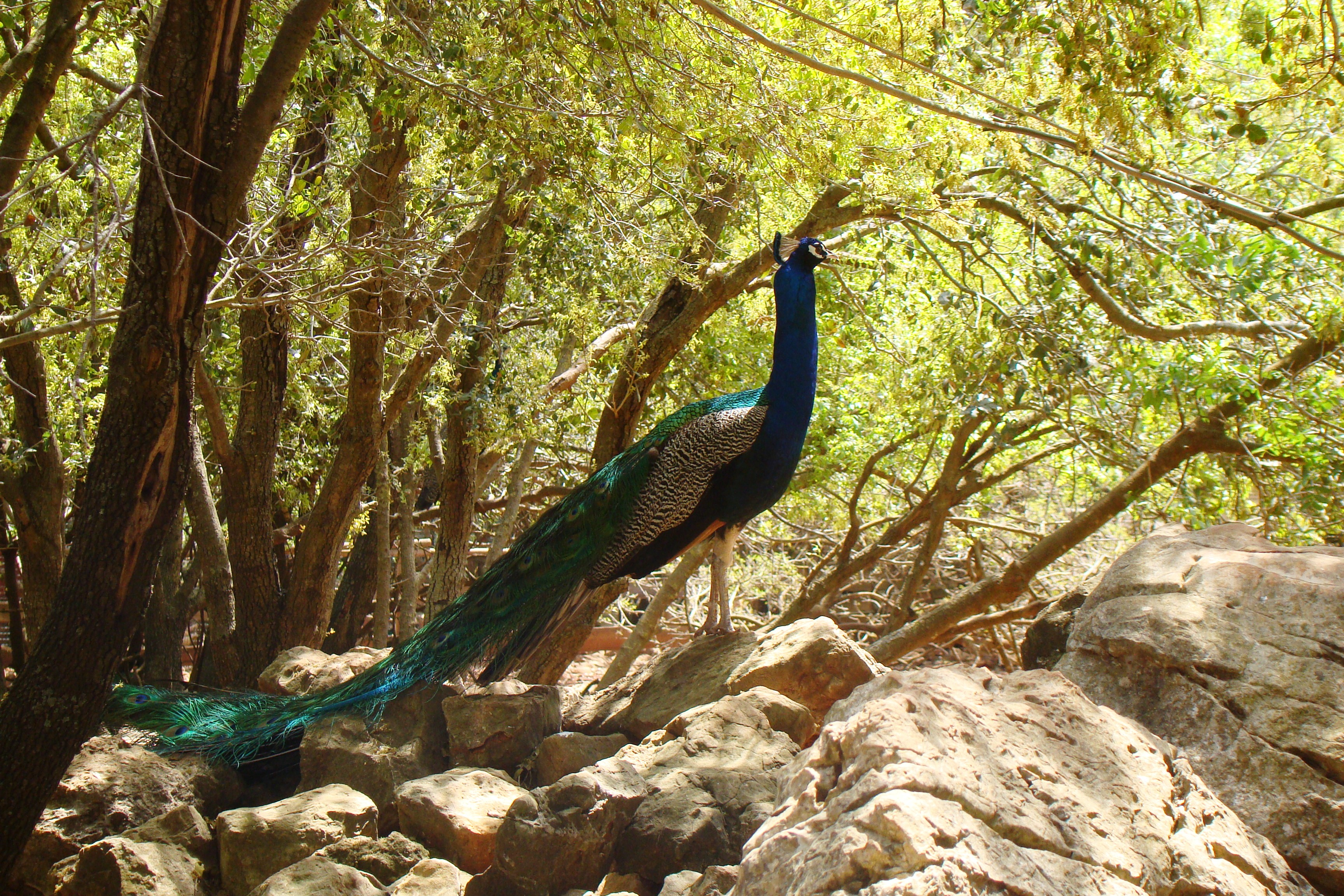 Wildlife and Plants of Israel